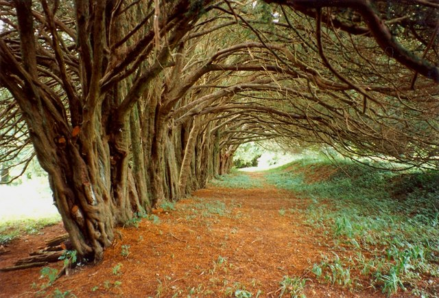 The yew walk, Huntington Castle, Clonegal, Co. Carlow.